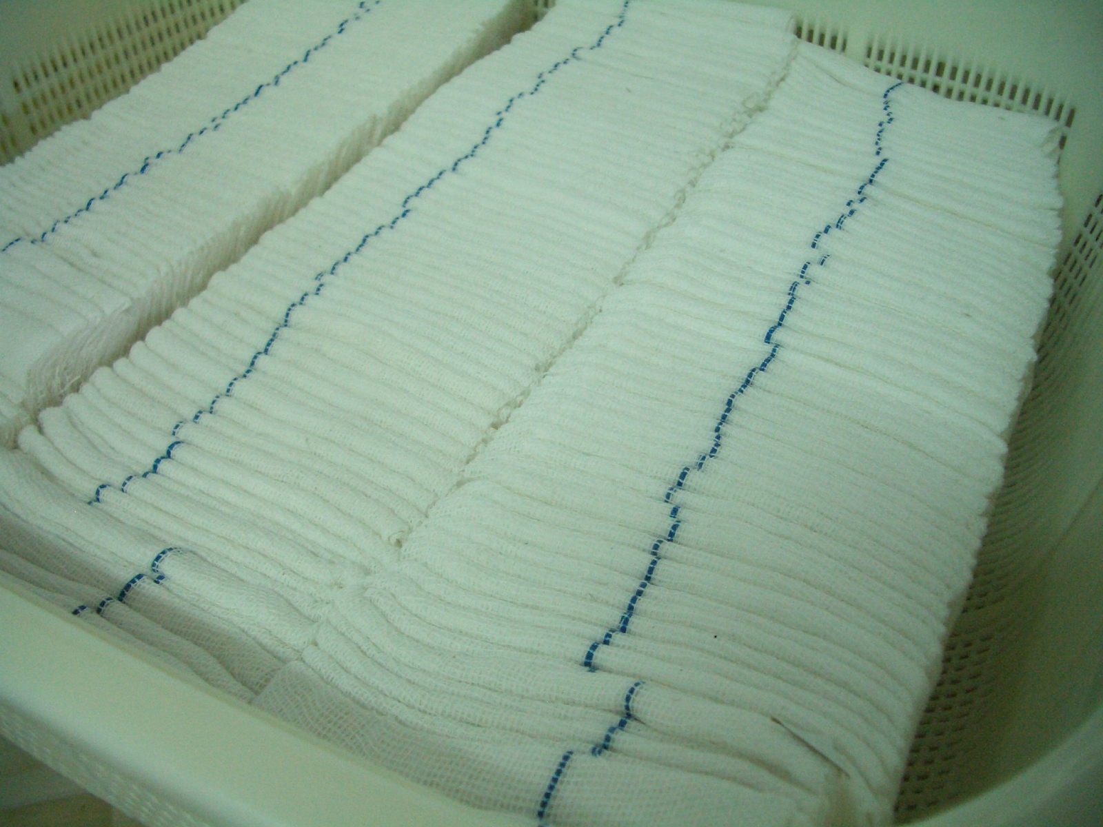 Gauze